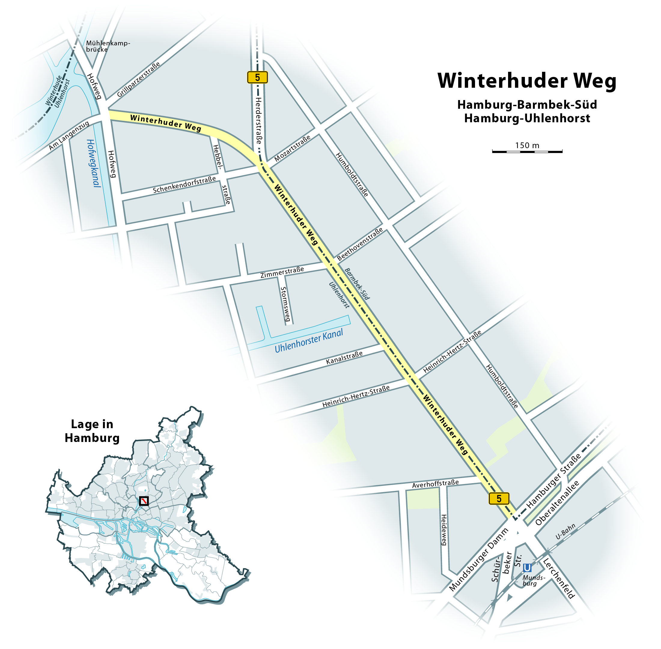 Map of Winterhuder Weg, Hamburg